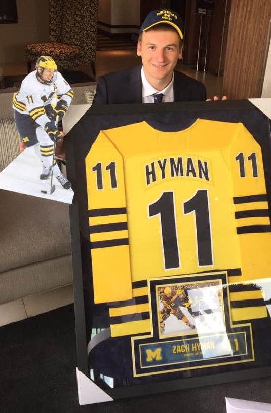 Zach Hyman at the 2015 Dekers Club Awards Banquet